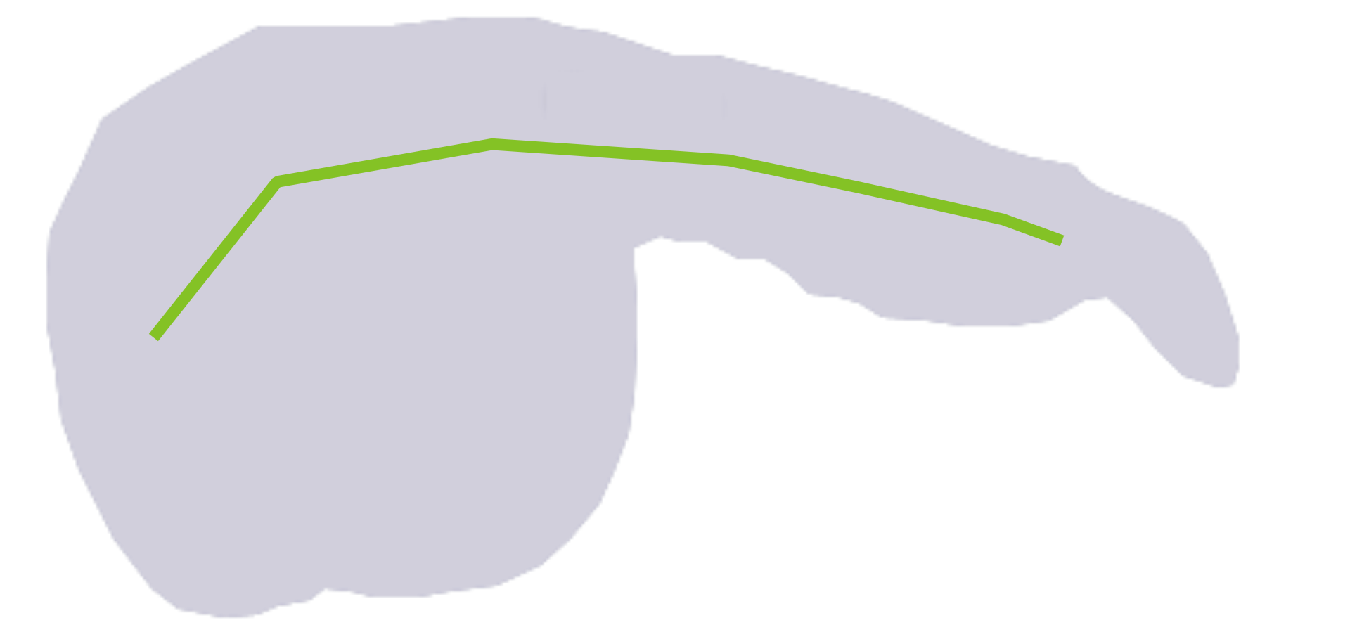 The lateral line system in Zebrafish's Embryo. The green colour means the fluorescence technology.